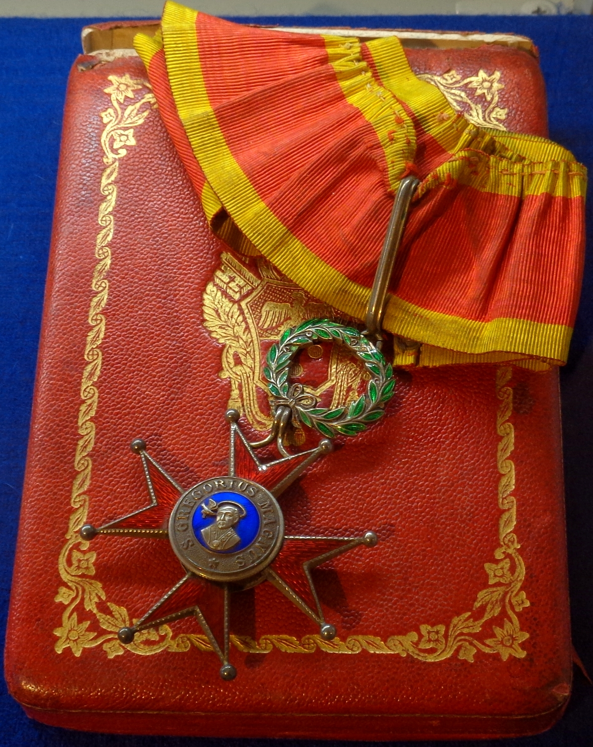 Order of Saint Gregory the Great, Commander's badge, 1920-1940. Vatican. The exhibition of the Tallinn Museum of Orders of Knighthood, Estonia.